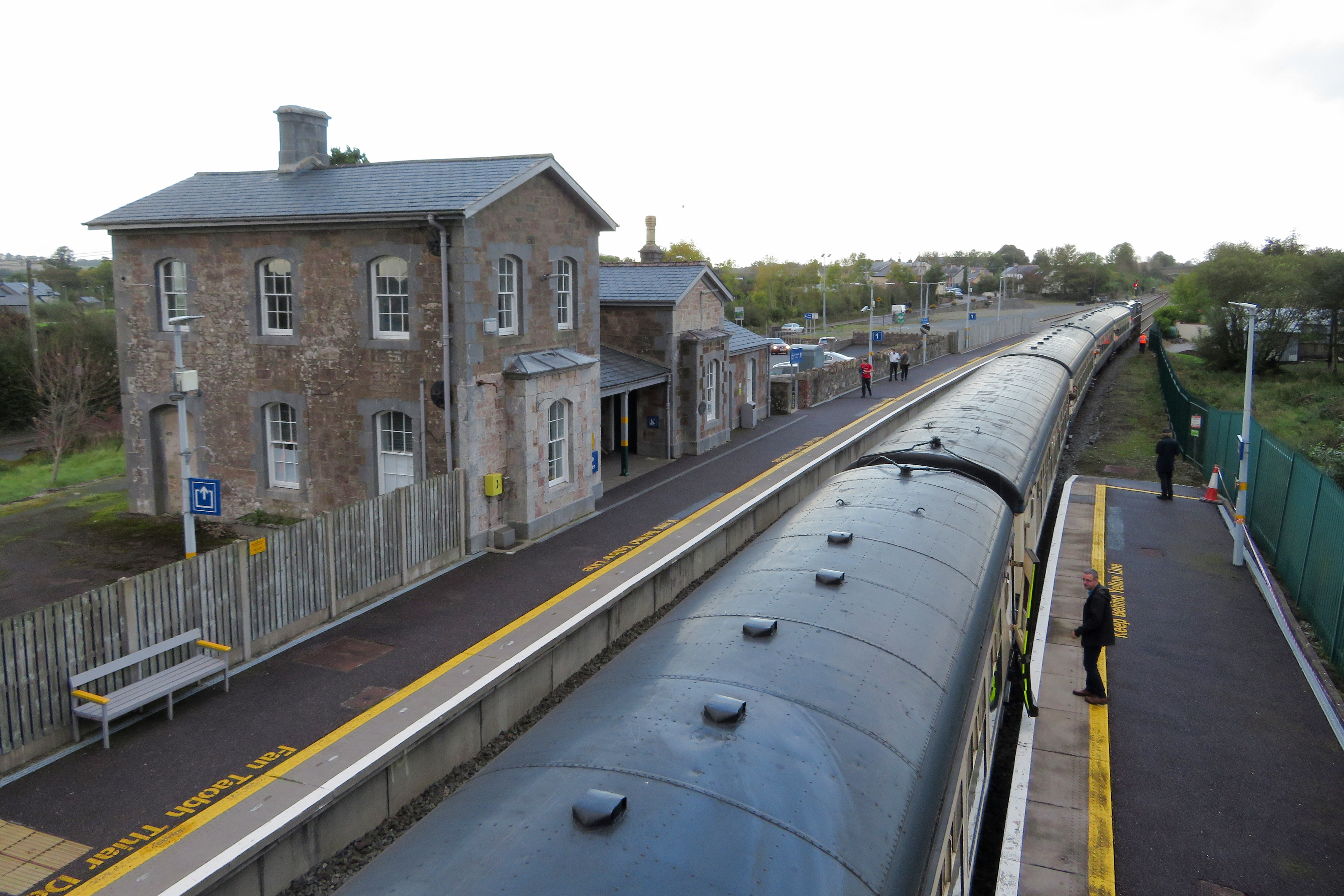 Banteer station. The train is the Cobh Rambler railtour, and is waiting to pass a service train on the otherwise single-track line. Creative Commons Licence [Some Rights Reserved] © Copyright Gareth James and licensed for reuse under this Creative Commons Licence.